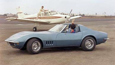 1969 Chevrolet Corvette Stingray Coupe